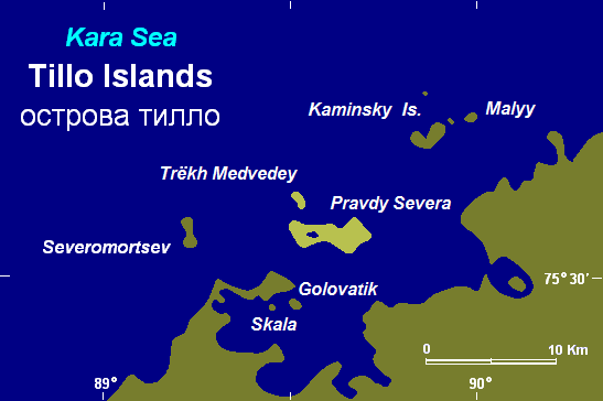 color map